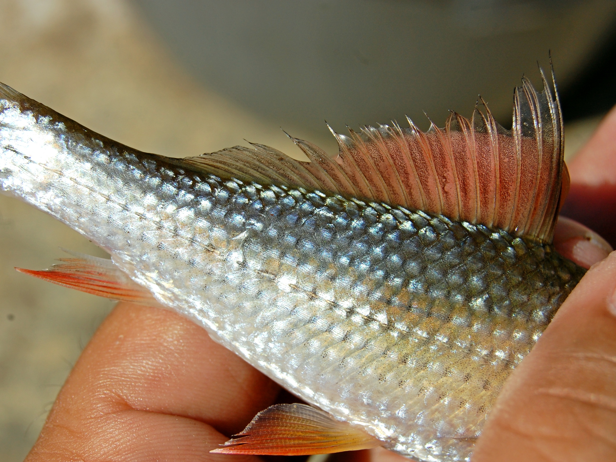 Above: Labiobarbus leptocheilus, 105 mm SL (standard length), dorsal fin. From Kebumen, Central Java, Indonesia.